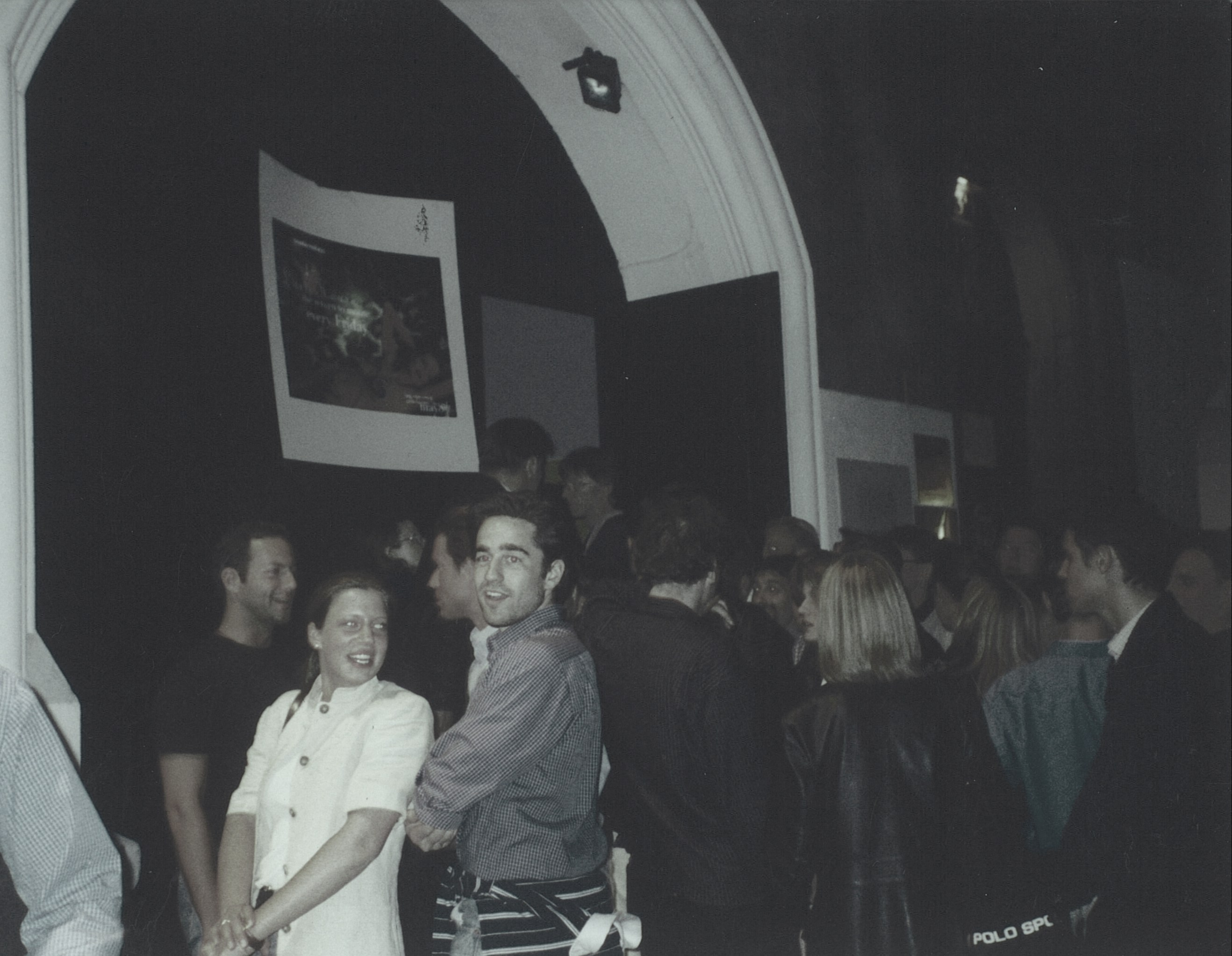 Clubopening Monte 1998